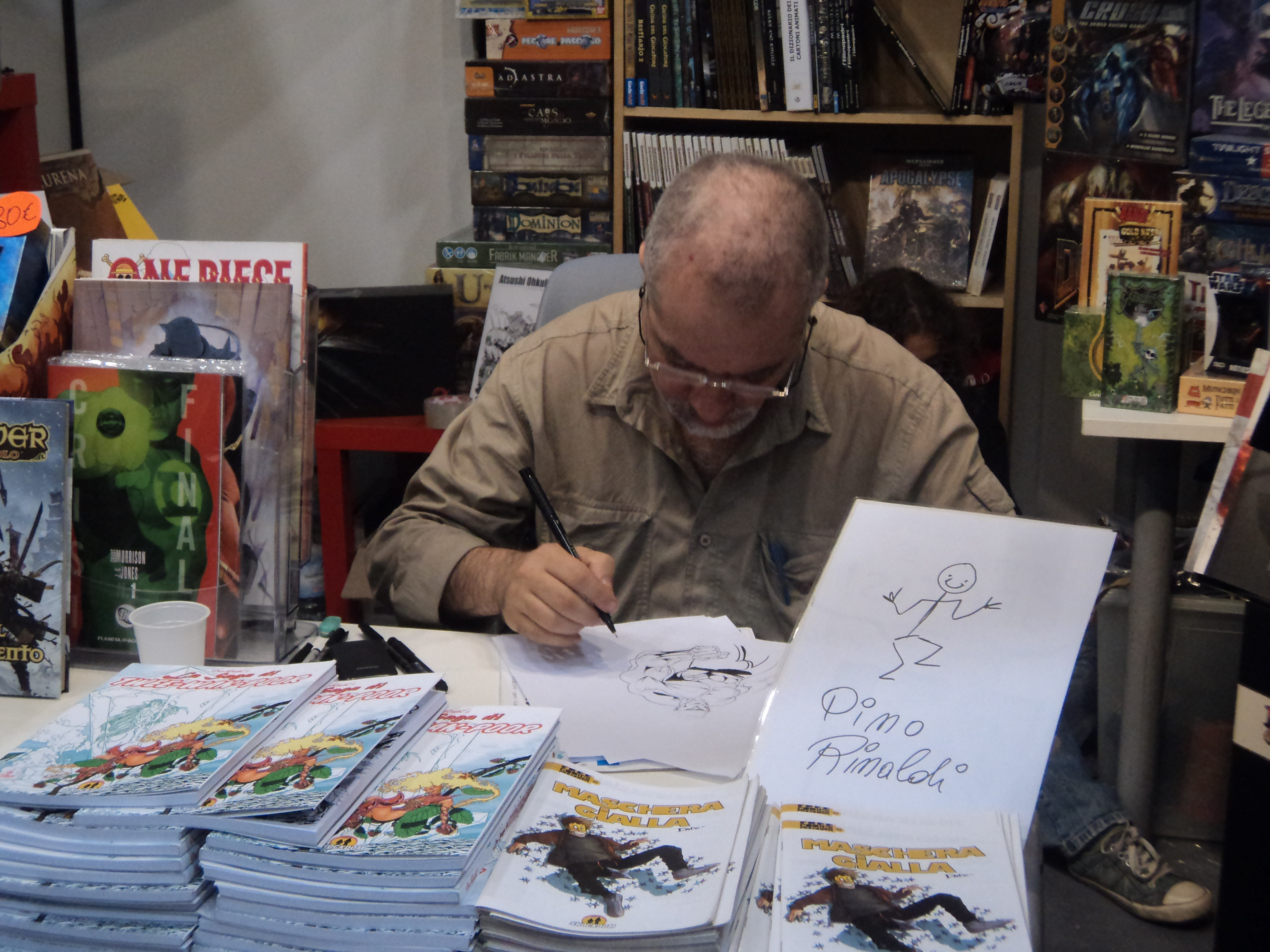 Romics 2013 - Autumn Edition